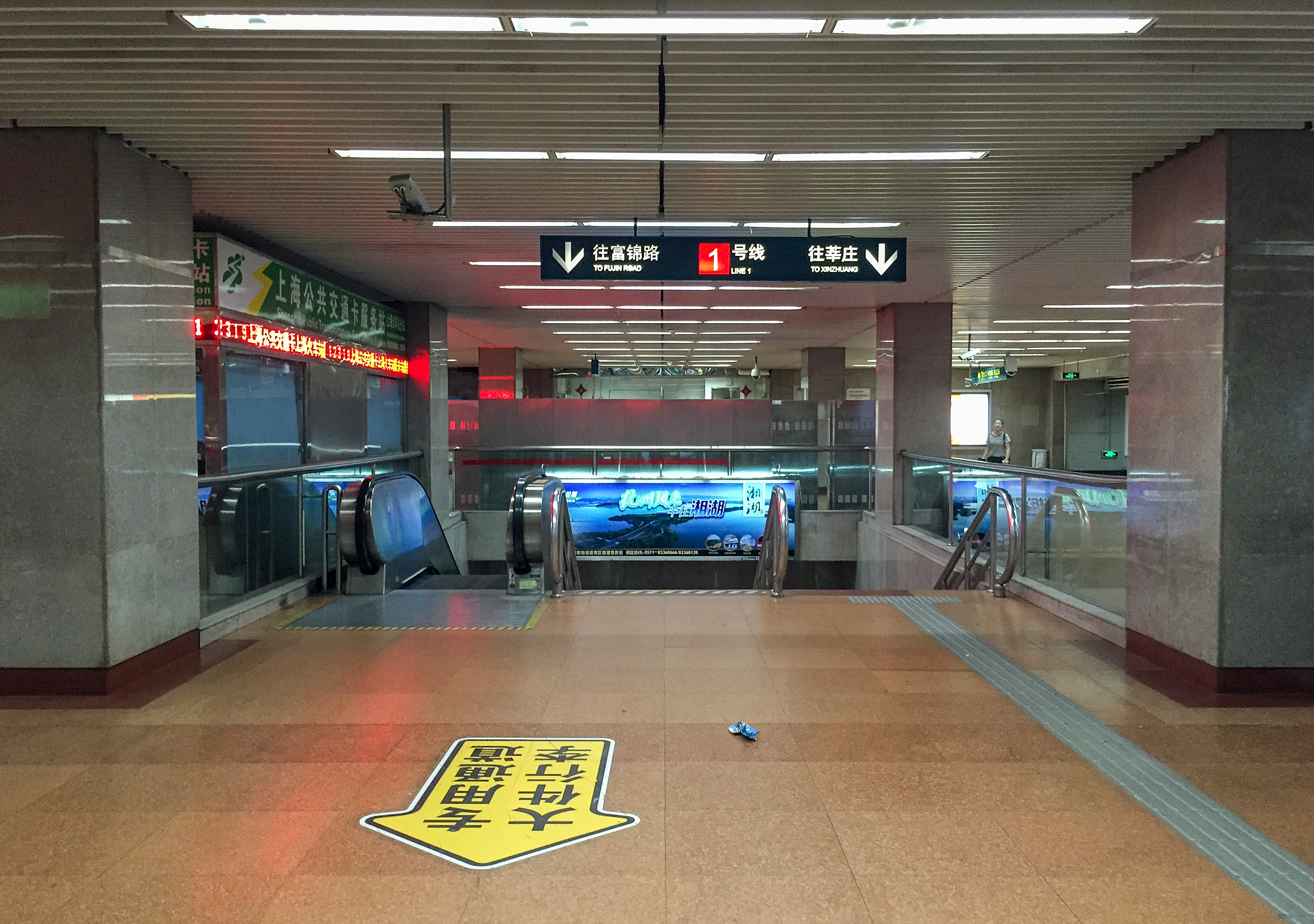 With the promotional advertisement of Xianghu, Hangzhou.